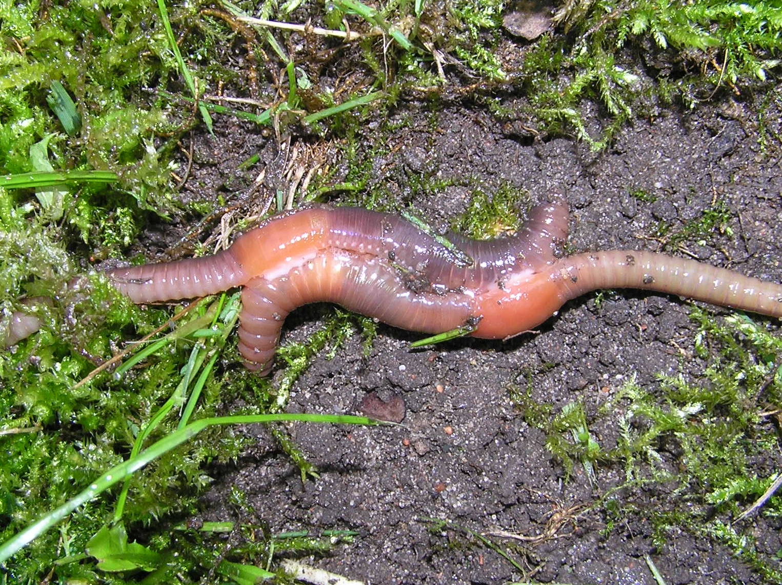 Earthworm copulation, Bialowieza, Poland